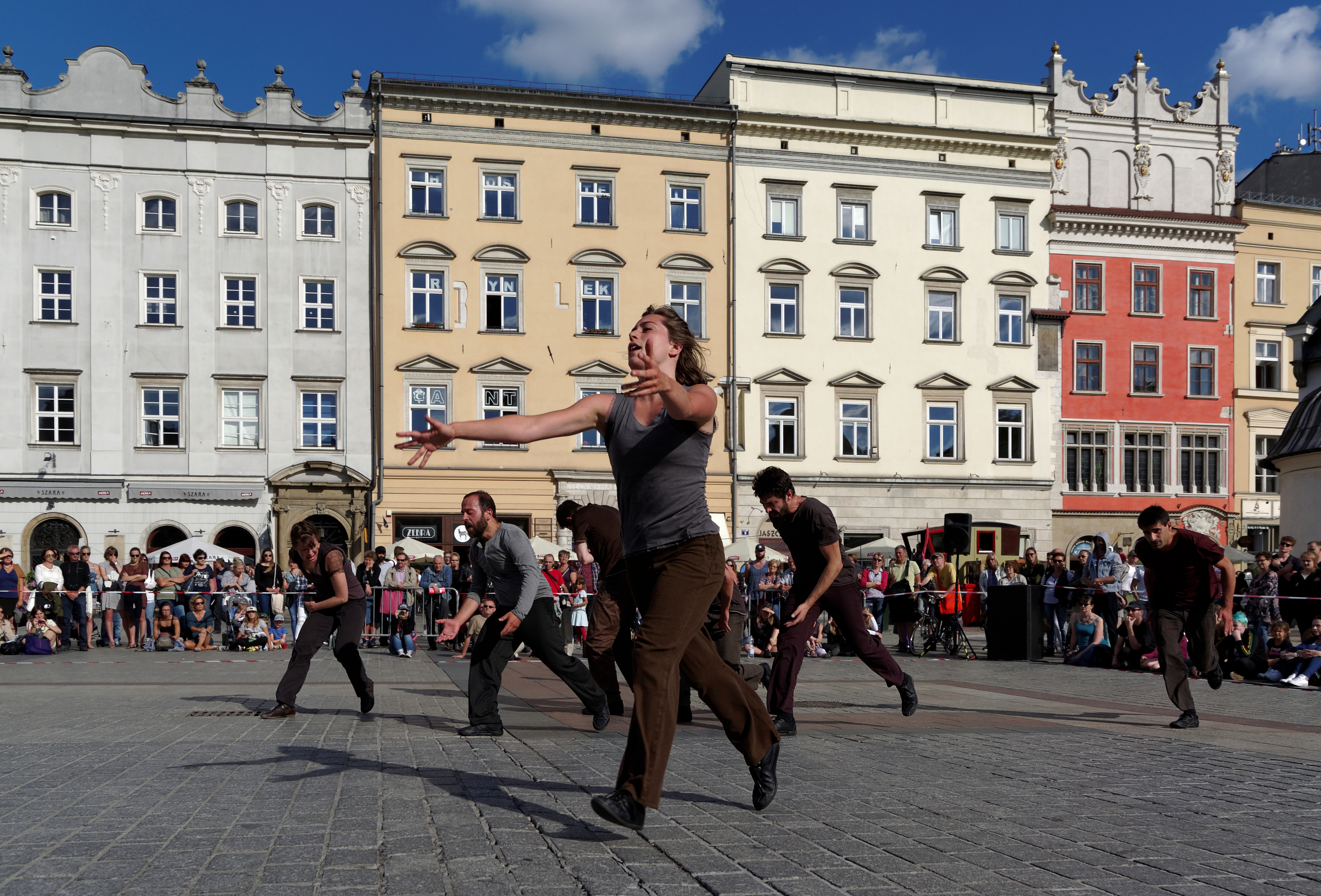 Groupe Tango Sumo in the show "Around" at 29. ULICA – The International Festival of Street Theatres in Kraków